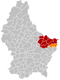 Own edit of Kanton EchternachLocatie.png